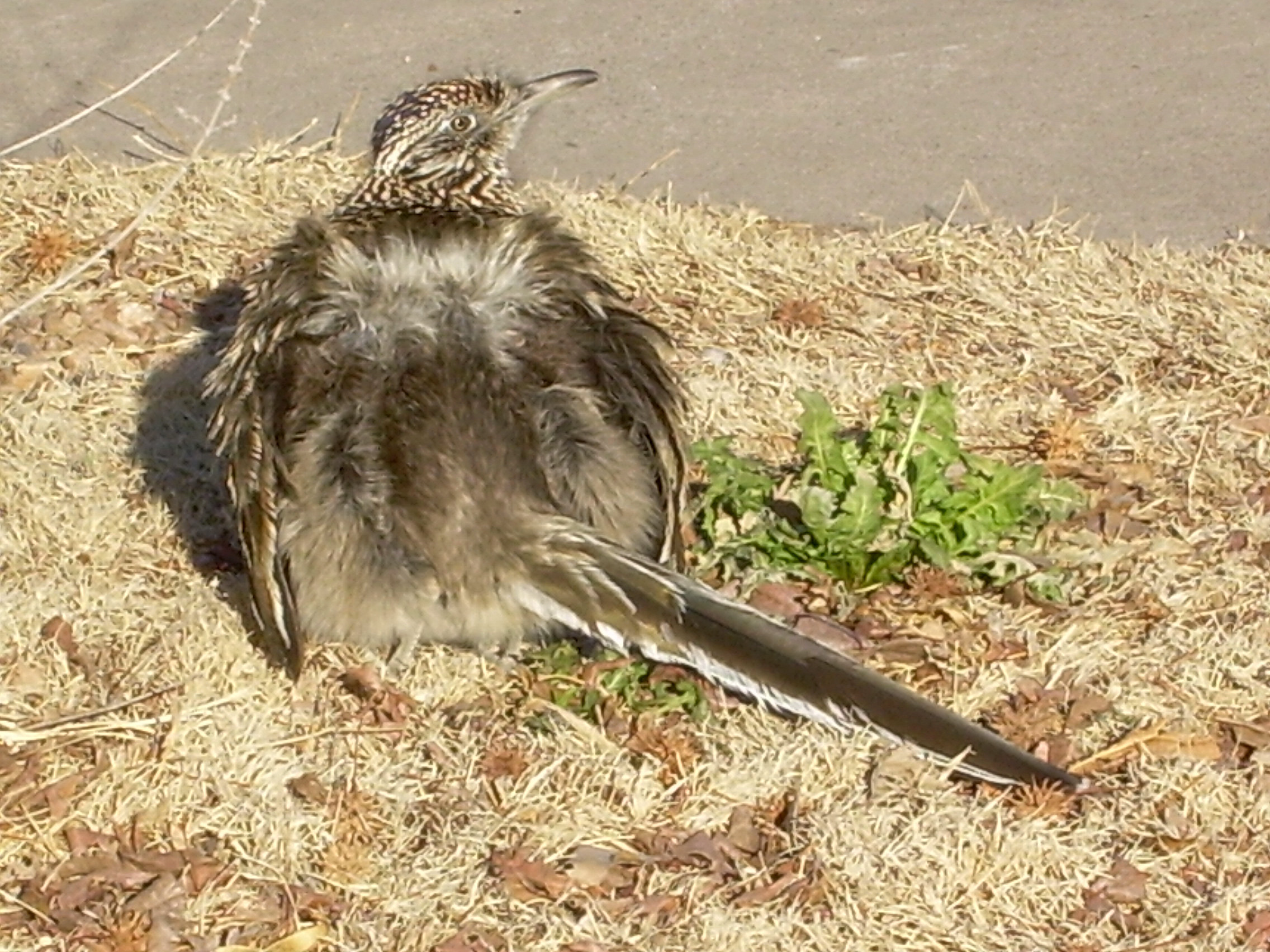 Roadrunner in the sun, central Albuquerque during the winter, 2007.